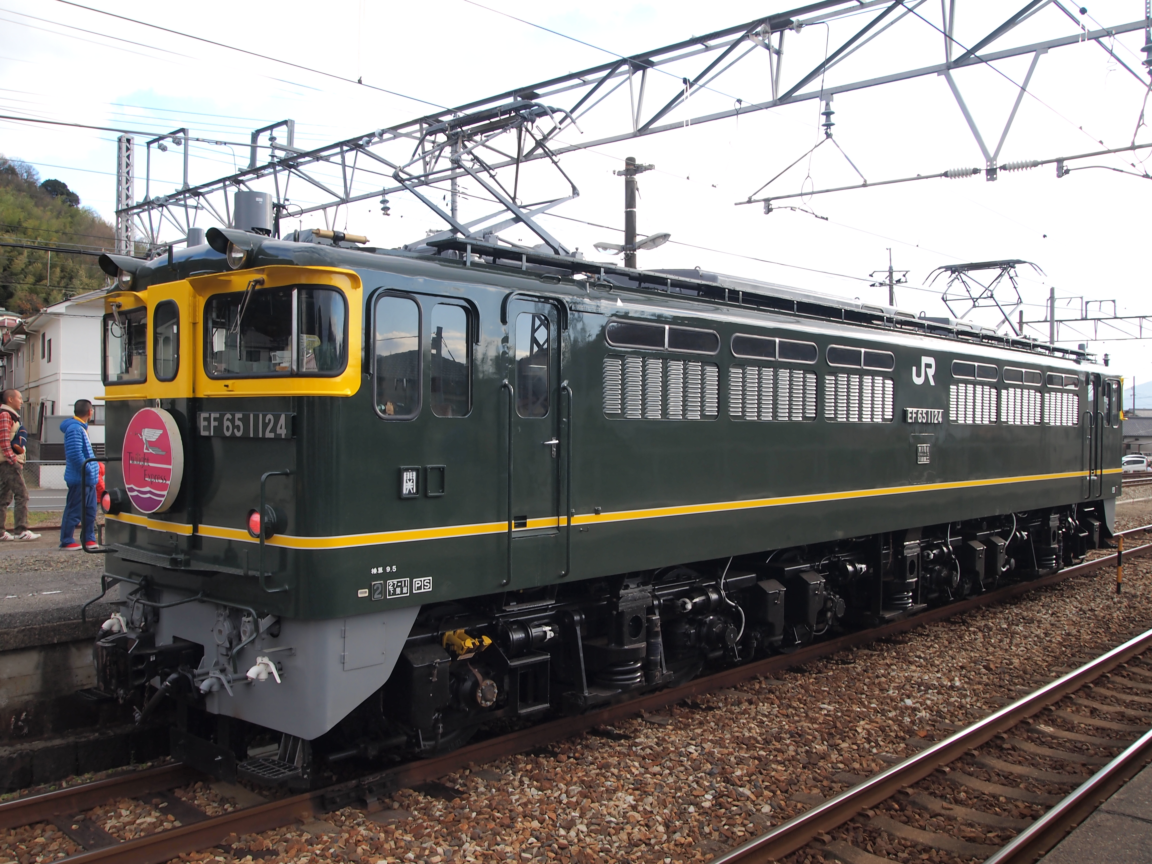 JR West EF65 1124 in special Twilight Express livery at Seto Station